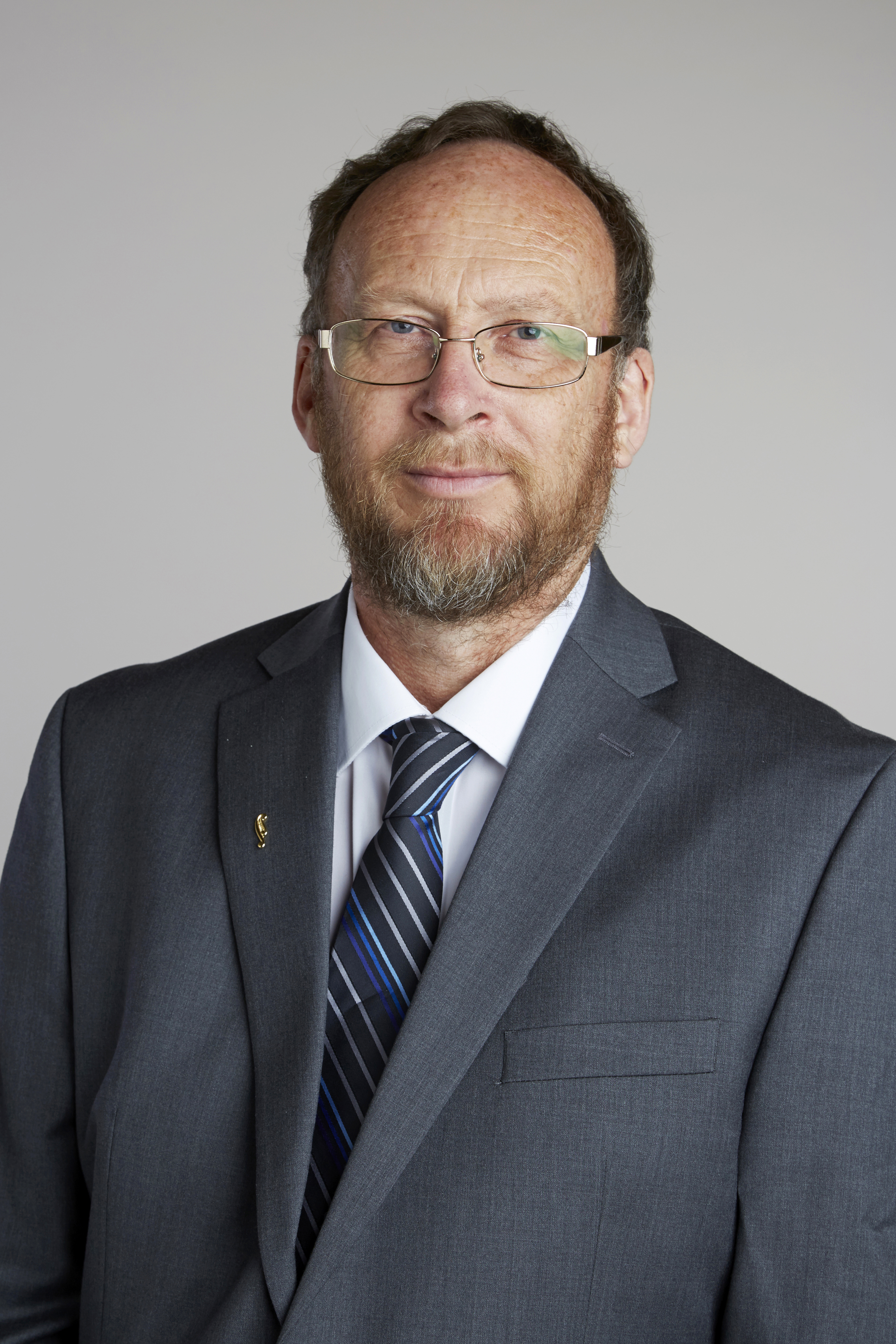 Colin Wilson is an outstanding field-focussed geologist, who has made world-class contributions to understanding explosive volcanism and crustal magmatism, based on uniquely detailed data sets gathered from historic and prehistoric eruption deposits. His studies of explosive volcanism, particularly the eruption and emplacement of pyroclastic flows and ignimbrites, have established many fundamental new ideas on large-scale hazardous volcanic activity and opened up new concepts in quantifying prehistoric eruptions. He has combined his field-focussed data with innovative analytical approaches in comprehensive studies of the dynamics of large (‘super-eruption’) silicic magma chambers in modern volcanoes. He is a recipient of the Wager Medal of the International Association of Volcanology and Chemistry of the Earth's Interior and was elected a Fellow of the Royal Society of New Zealand in 2001 and of the American Geophysical Union in 2006. Attribution: The Royal Society